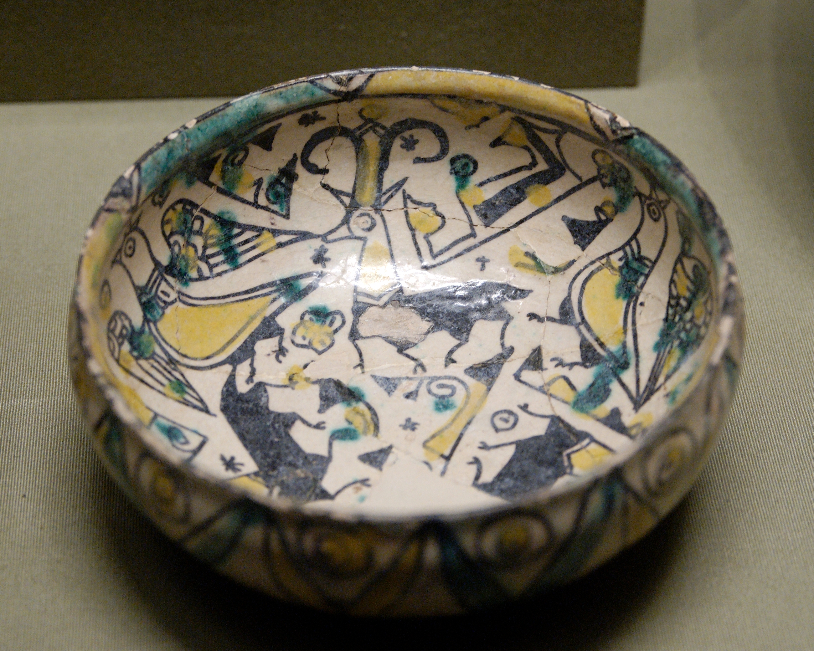 Cup with kaleidoscopic decoration. Slipped earthenware with slip and pigments decoration painted under transparent glaze, 10th-11th centuries. From Khurasan.